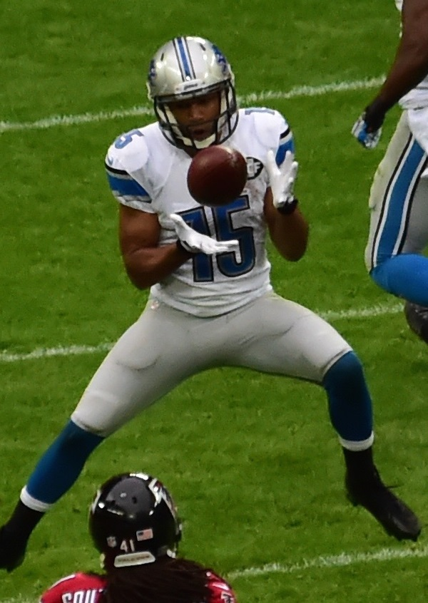 Detroit Lions vs Atlanta Falcons - Wembley 2014